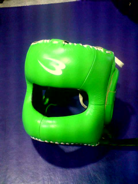 headgear.fullface